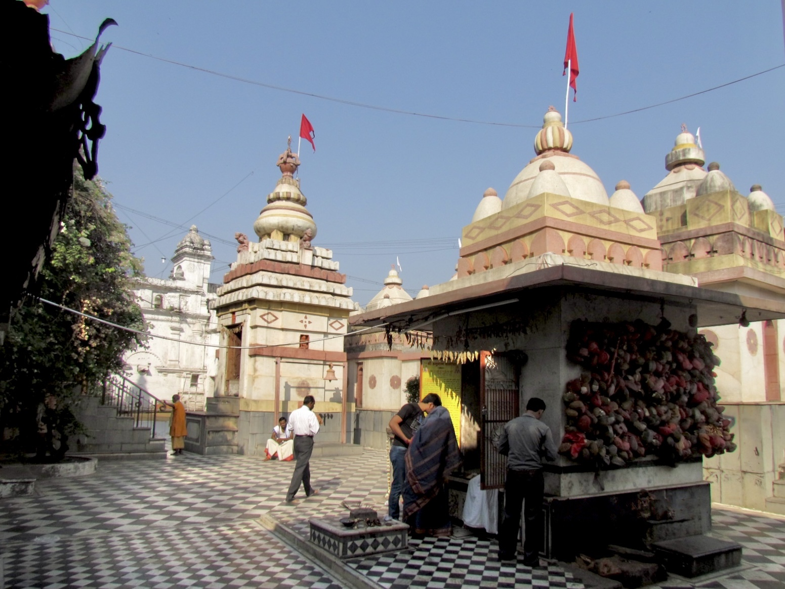 Dudhadhari Monastery & Temple in Raipur